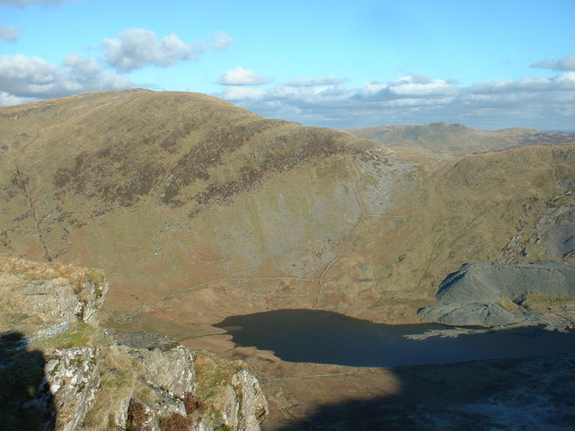 Llyn Cwmorthin, near to Tanygrisiau, Gwynedd, Great Britain. Taken from Foel Ddu, looking towards the slopes of Allt-y-Ceffylau.